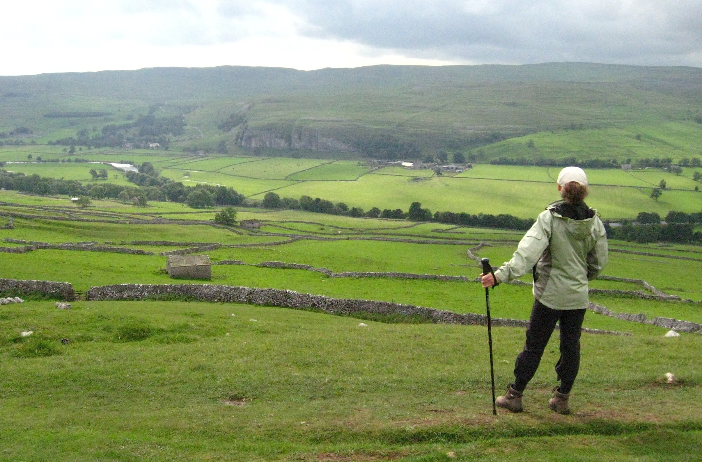 Disant view of Kilnsey, North Yorkshire, over Wharfedale from Grassington Moor